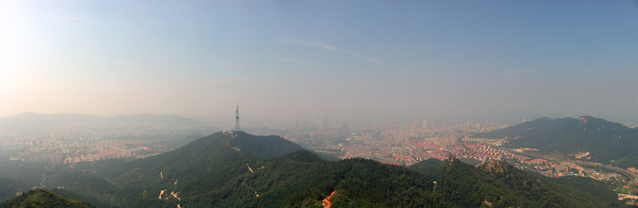 Yantai panoram from Tashan hill (Sanhe Tower)